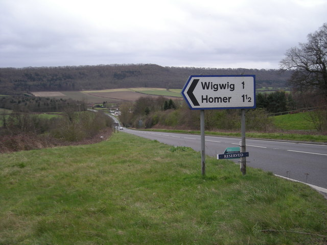 Harley by-pass, near to Harley, Shropshire, Great Britain.